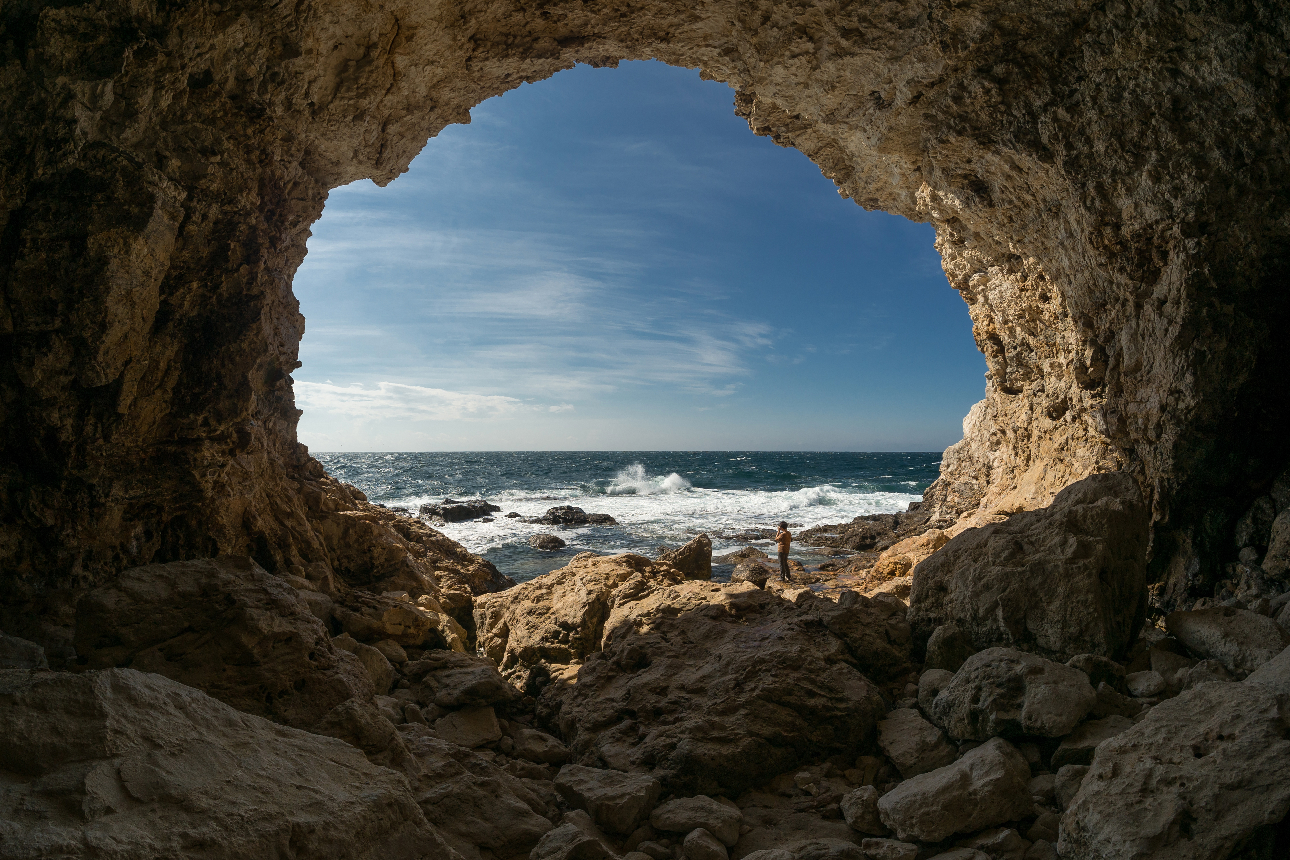 Atlesh, 3 km south of the village of Olenevka, Black Sea region, Crimea. The huge grotto is not noticeable from the land, not even from the cape of Big Atlesh. You can get to the grotto by going east from the arch of the Great Atlas. When the sea is agitated, you will have to climb the rocks just above the surf line.